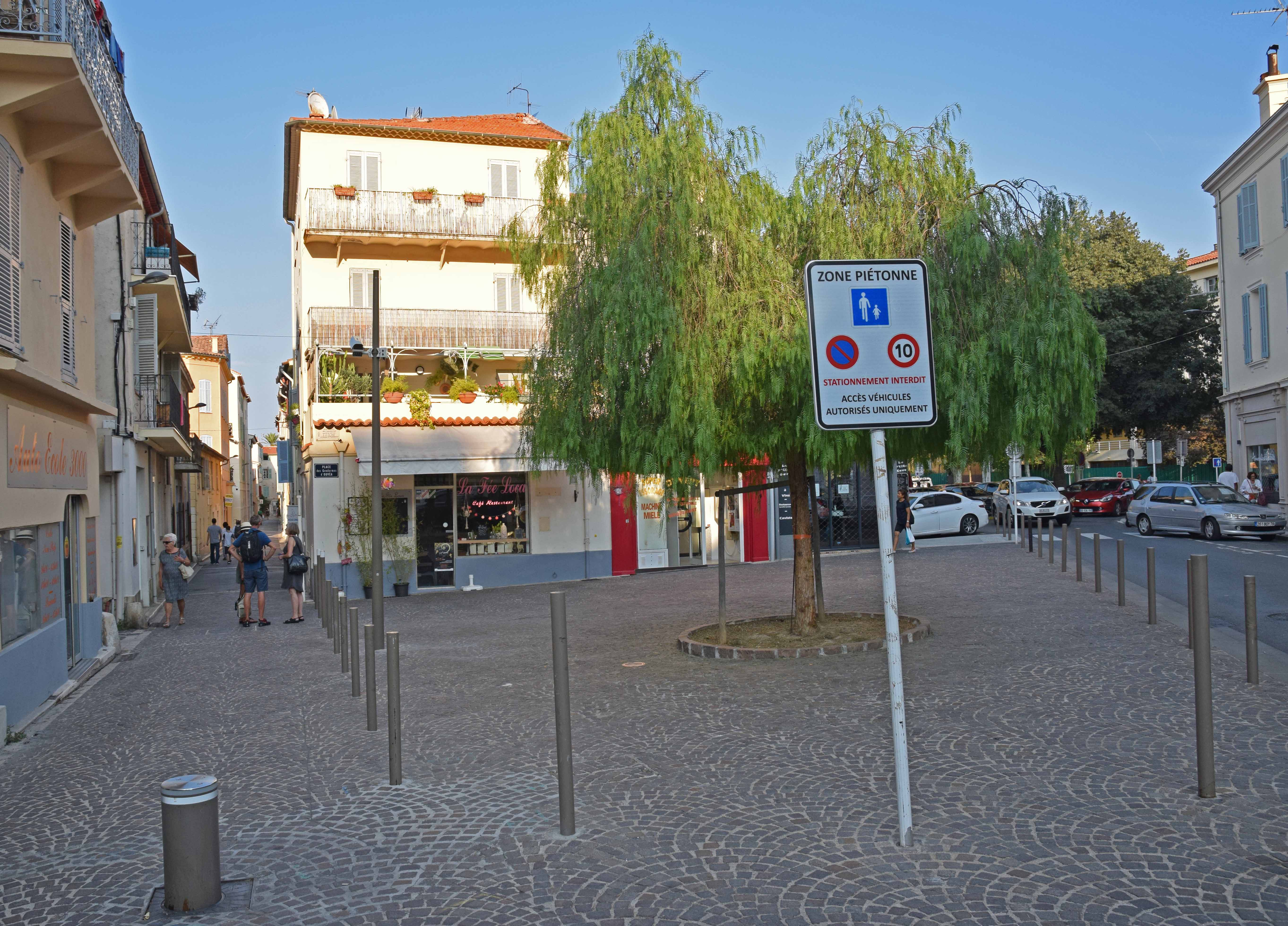 Place des Gendarmes d'Ouvea, Antibes, Rue de Fersen to the left